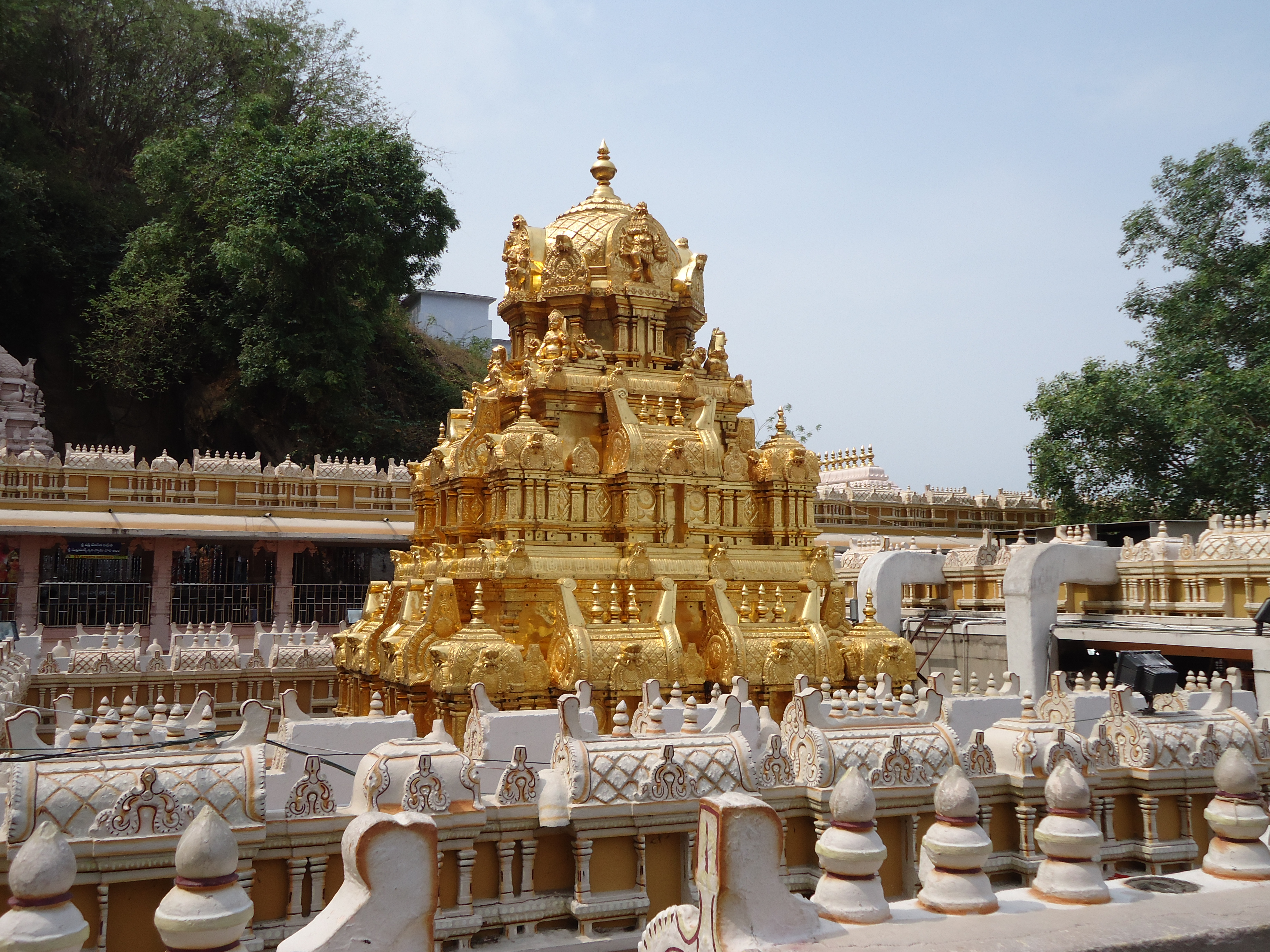 Kanakadurga Temple Vimana Gopuram, Sanctum sanctorum